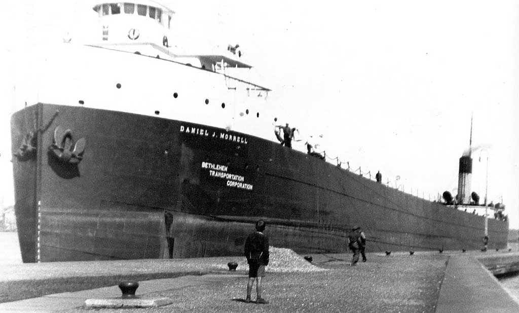 The steamer Daniel J. Morrell in the Soo Locks